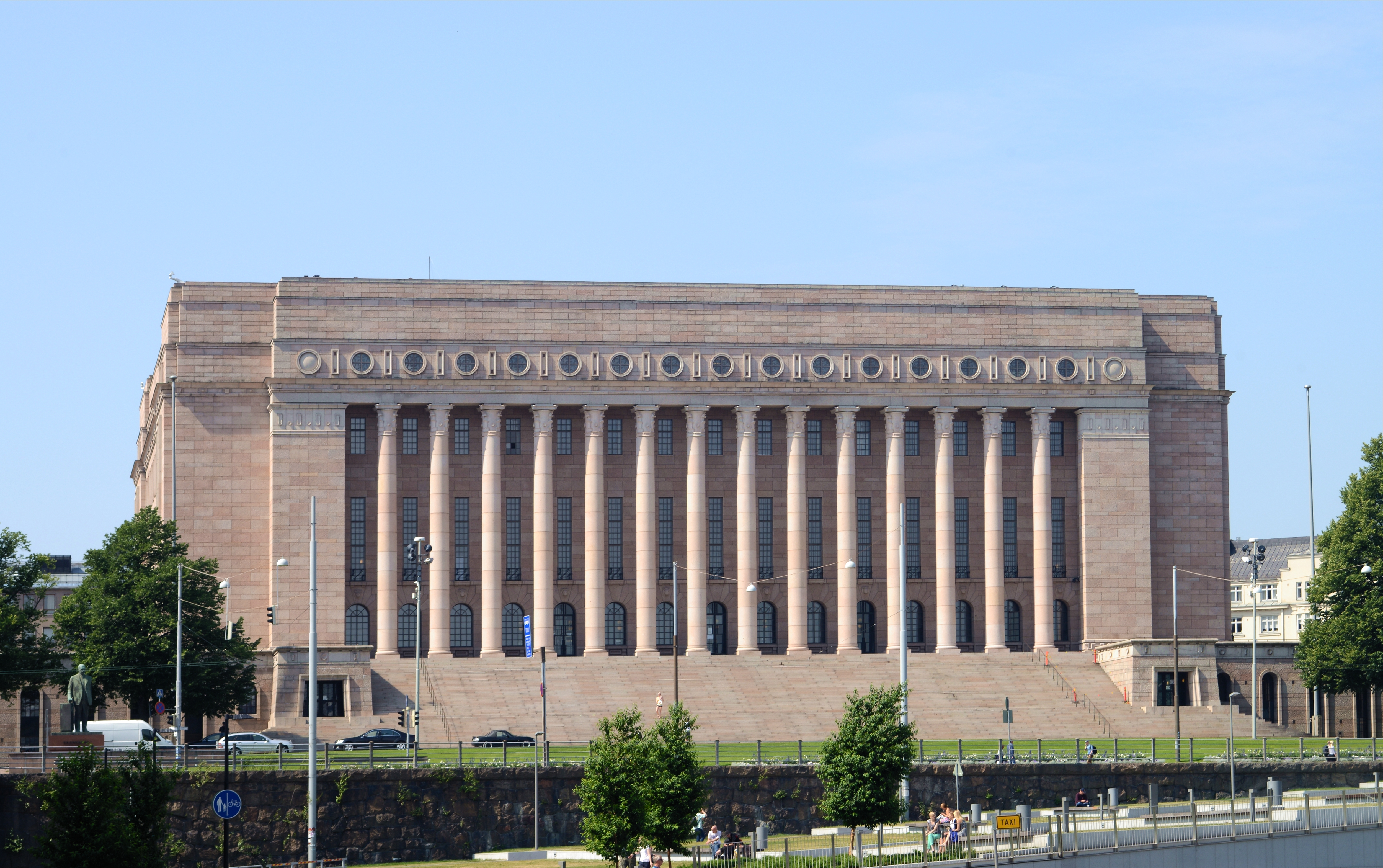 Parliament House, Helsinki